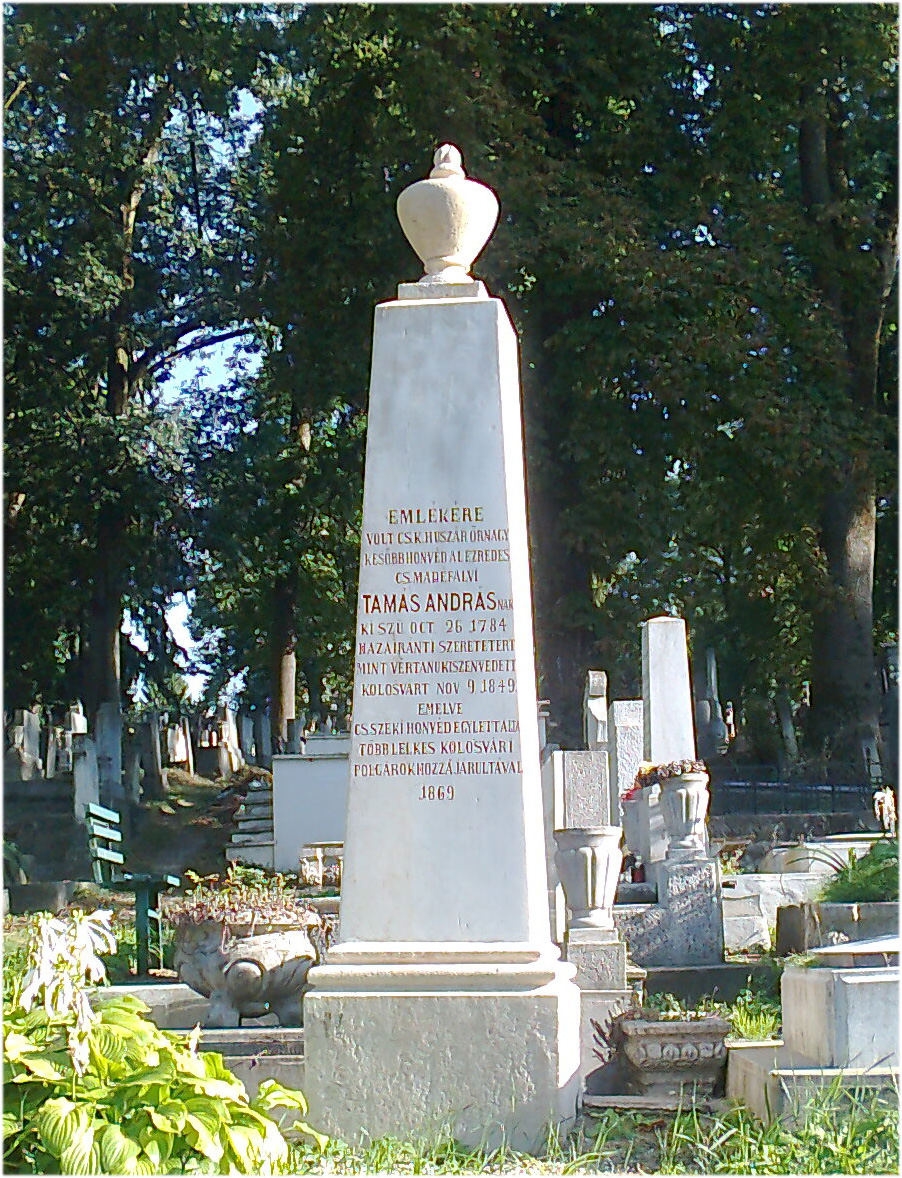 Grave of András Tamás